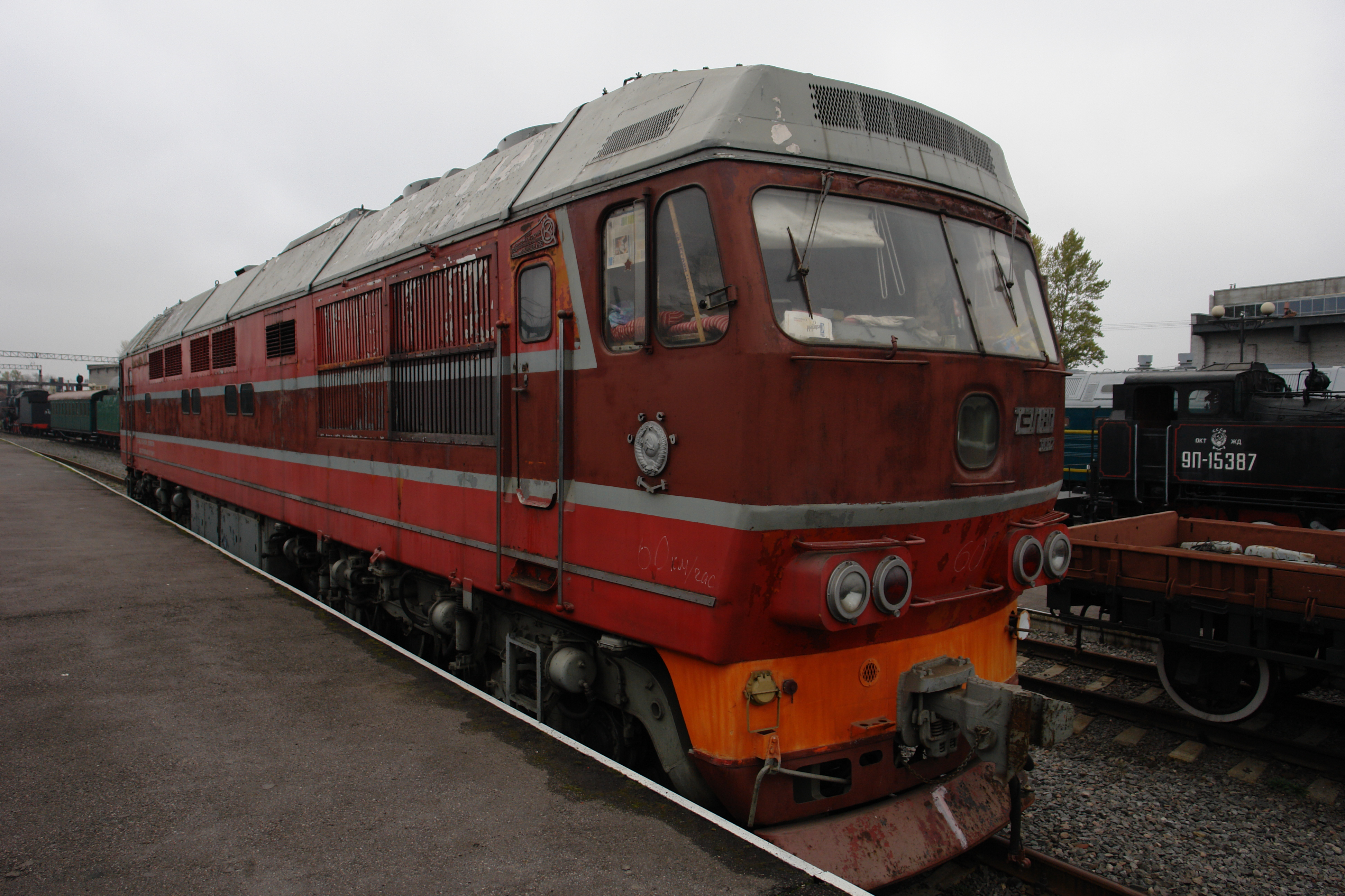 Locomotive TEP80 002 (no additional information avaible)